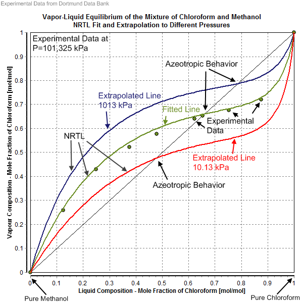 Vapor-Liquid Equilibrium of the Mixture of Chloroform and Methanol with NRTL Fit and Extrapolation to Different Pressures